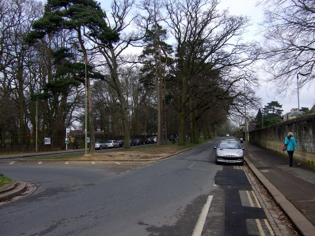 Warneford Lane, Headington The 'lane', actually quite a wide road with a grassy strip in the middle, runs between this point at the top of Morrell Avenue, towards Old Road, with, on the right of the image, the Warneford Hospital behind the wall, and on the left, the top of South Park and the junction with Cheney Lane.